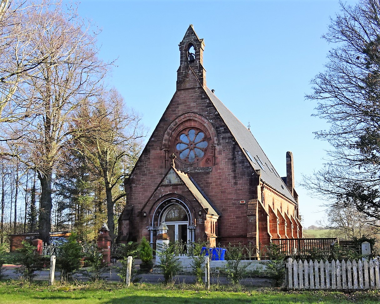 Old Lady Coates Memorial church, Minishant, South Ayrshire, Scotland. Closed in the 1980s and became an Indian Restaurant then a private dwelling.